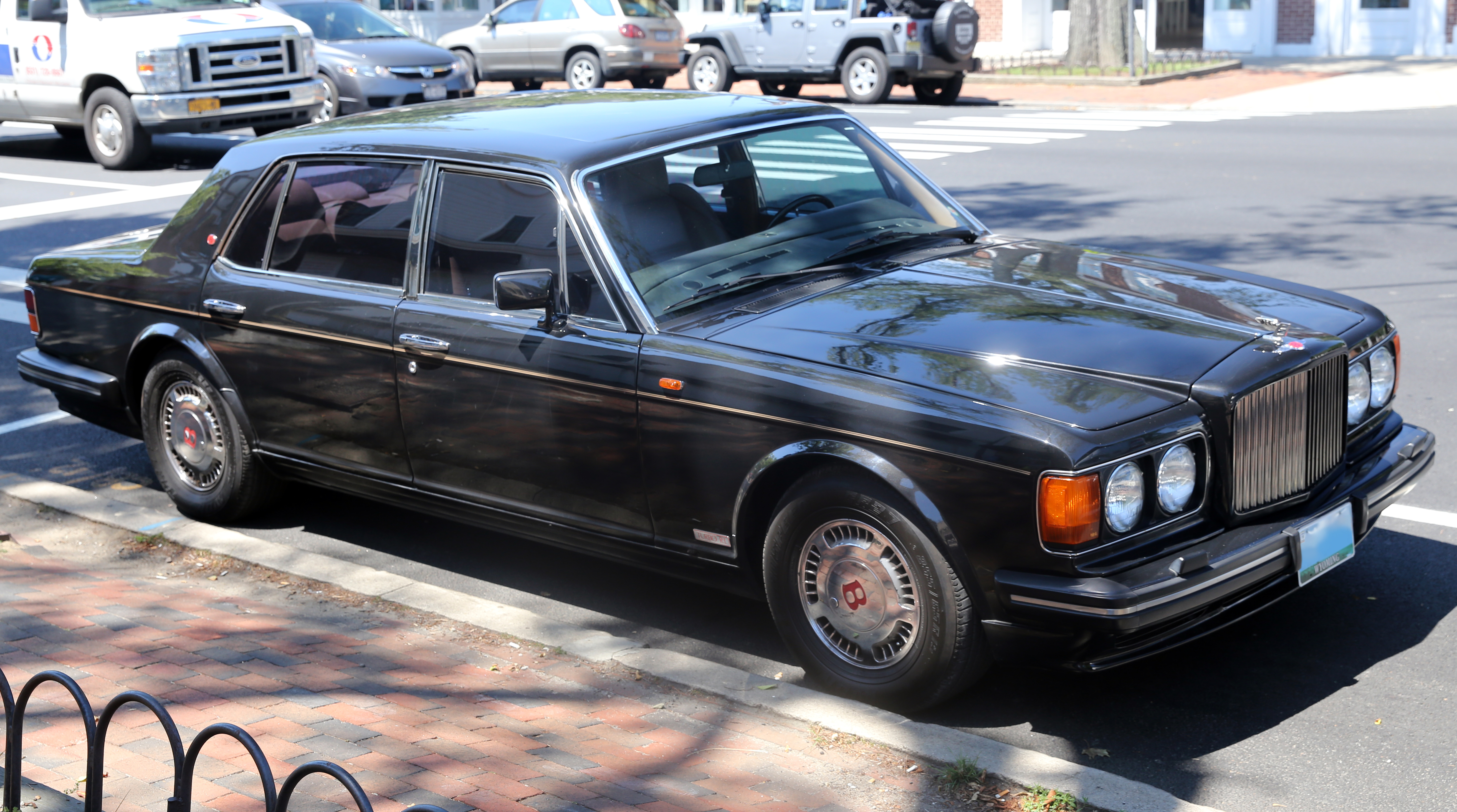 1992 Bentley Turbo RL. Catalyzed US version with a driver's side airbag. Registered in Wyoming.